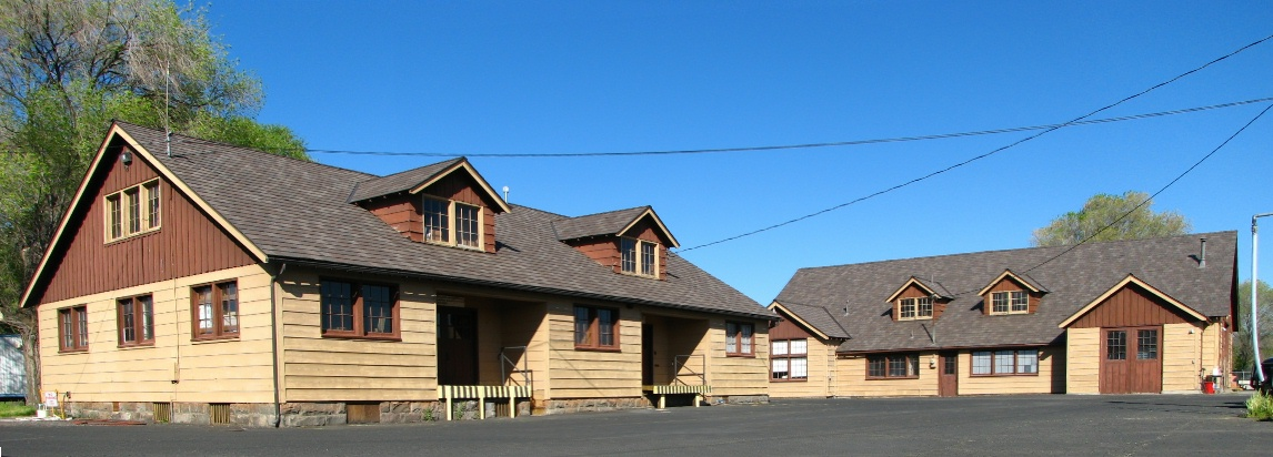 The historic Lamonta Compound – Prineville Supervisor's Warehouse complex (built 1933), located on Lamonta Road in Prineville, Oregon, United States, is listed on the US National Register of Historic Places. The compound remains a support facility for the Ochoco National Forest. Stitched panorama from 3 original shots.